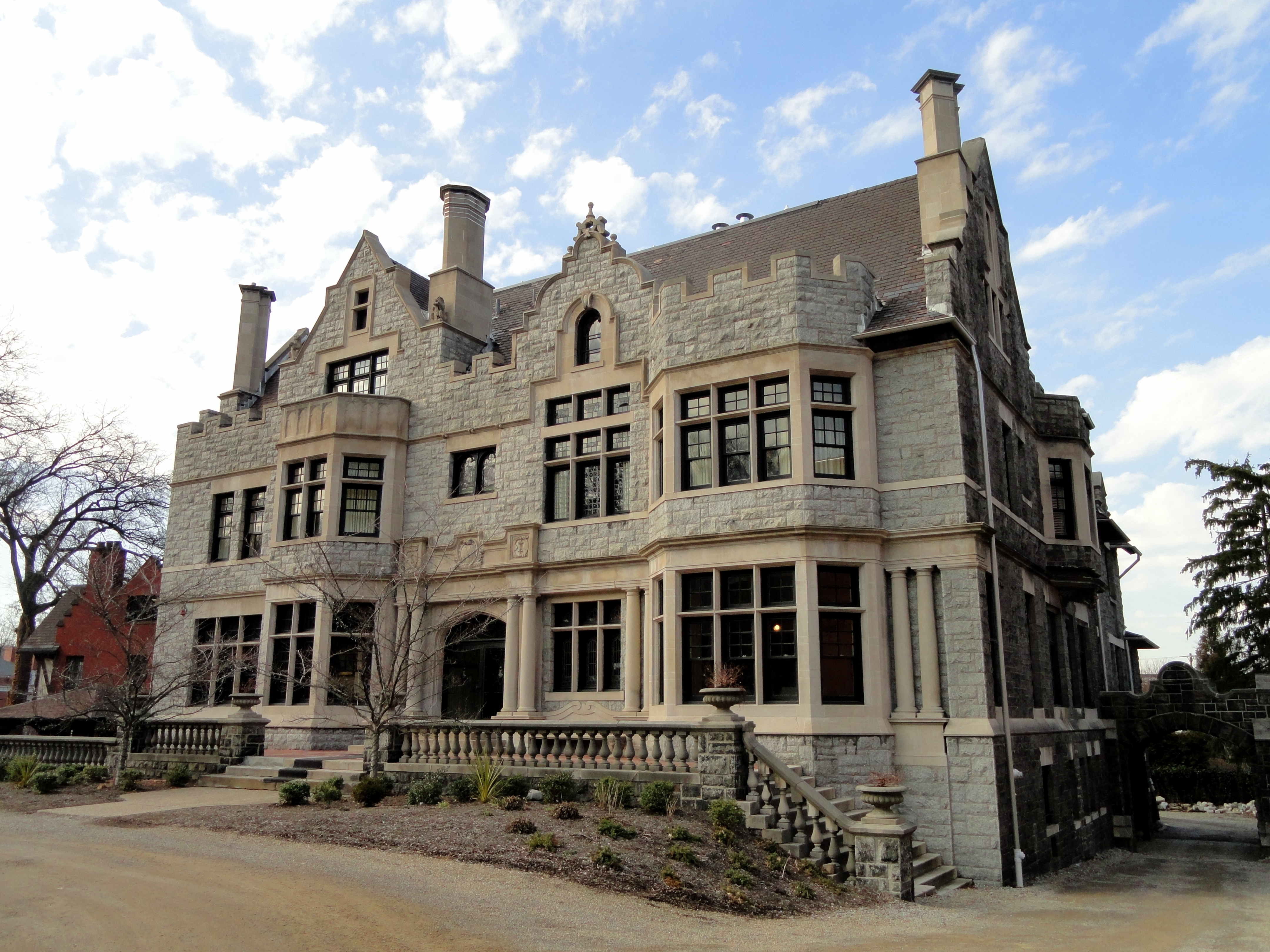 Willis McCook Mansion, 5105 Fifth Avenue, Pittsburgh, Pennsylvania, USA. Designed by Carpenter & Crocker in 1906-07. Restored circa 2010.